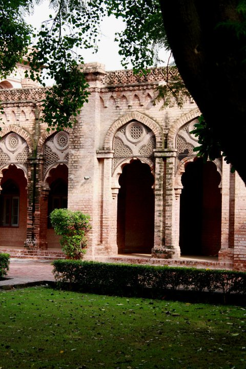 Aitchison College This is a photo of a monument in Pakistan identified as the PB-P-55